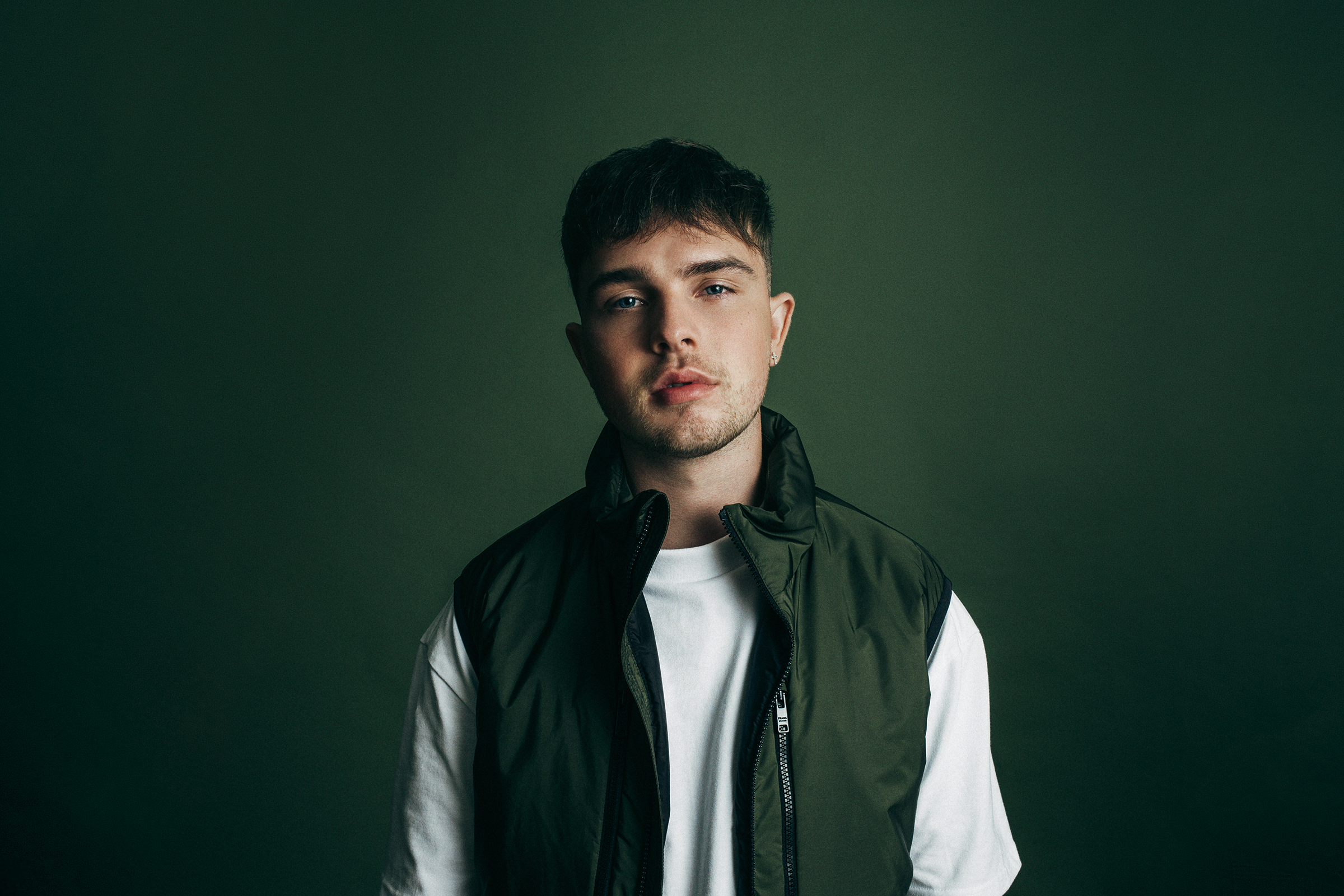 Mike Singer Summer 2020